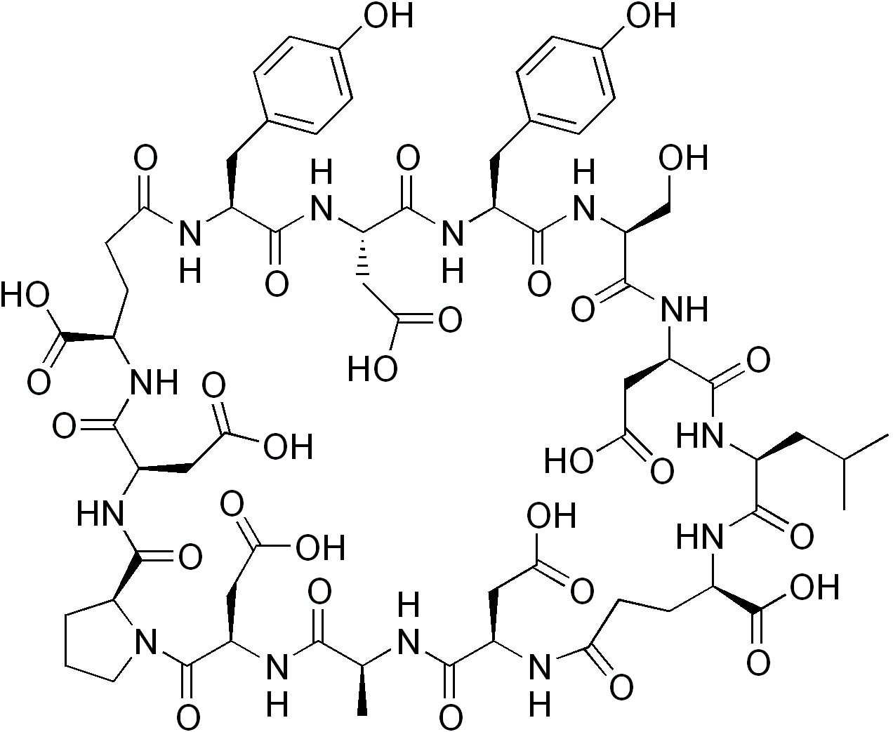 chemical structure of mycobacillin